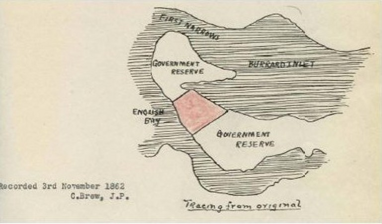 Map showing purchase of land